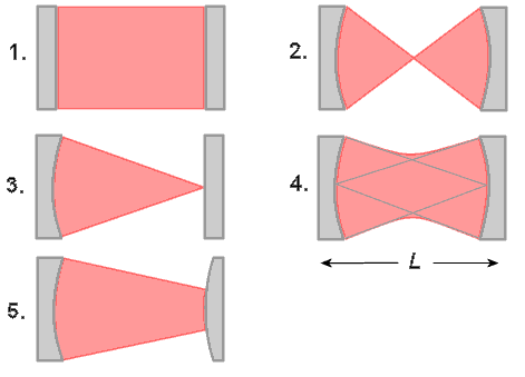 Different types of optical cavities (see fr or en). Made by Myself.